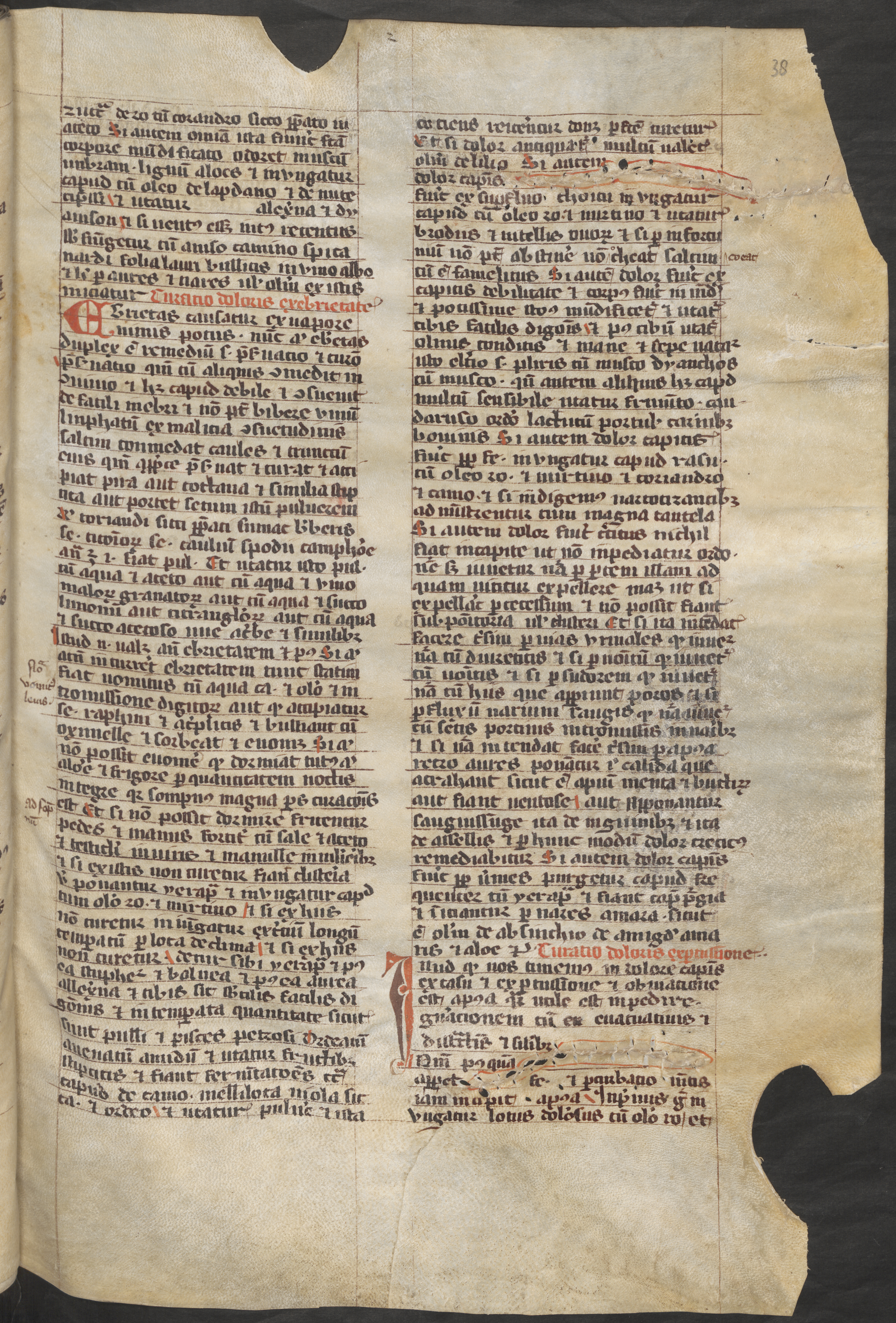 Ms.684, fol. 38r.